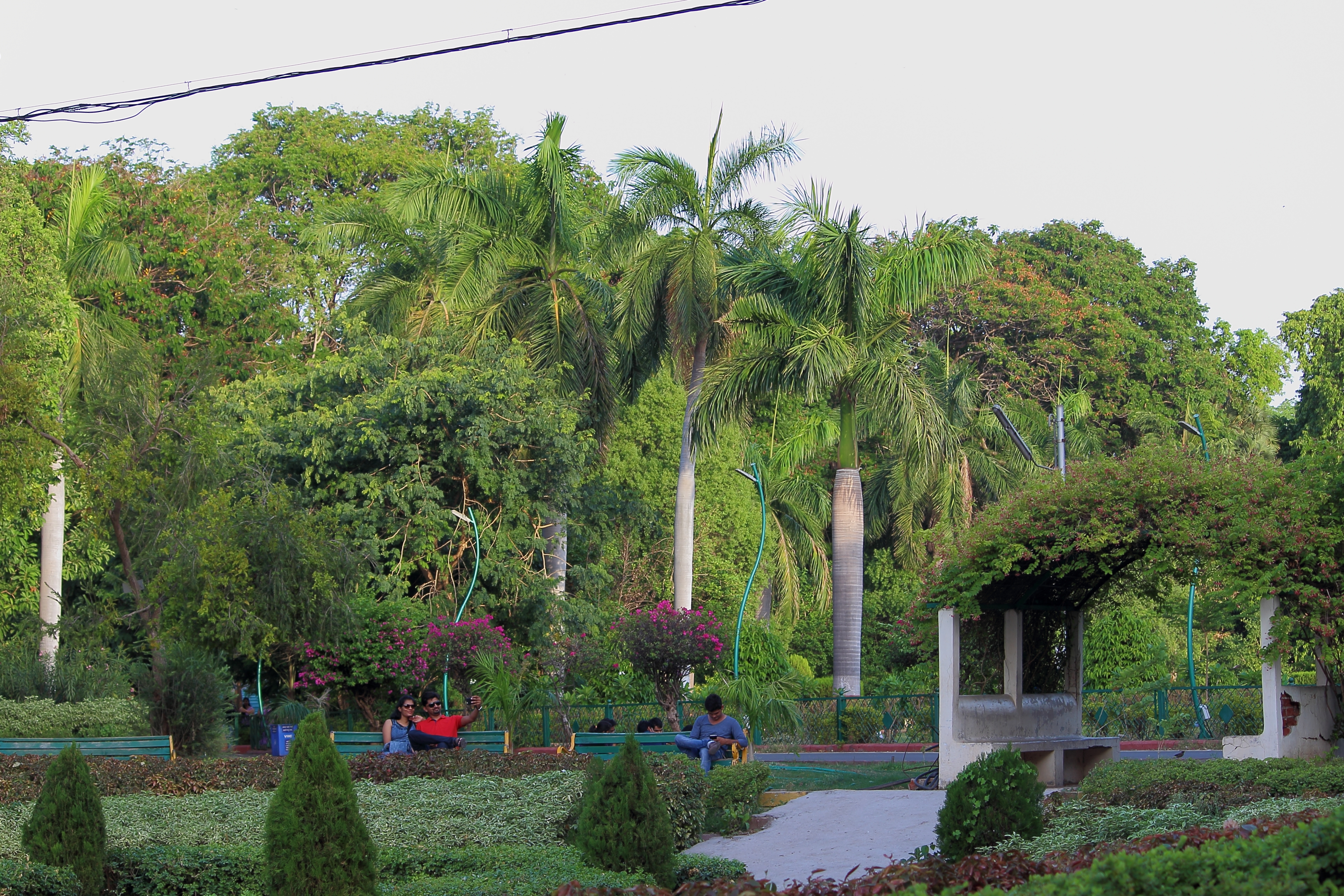 Sayaji Garden, Vadodara